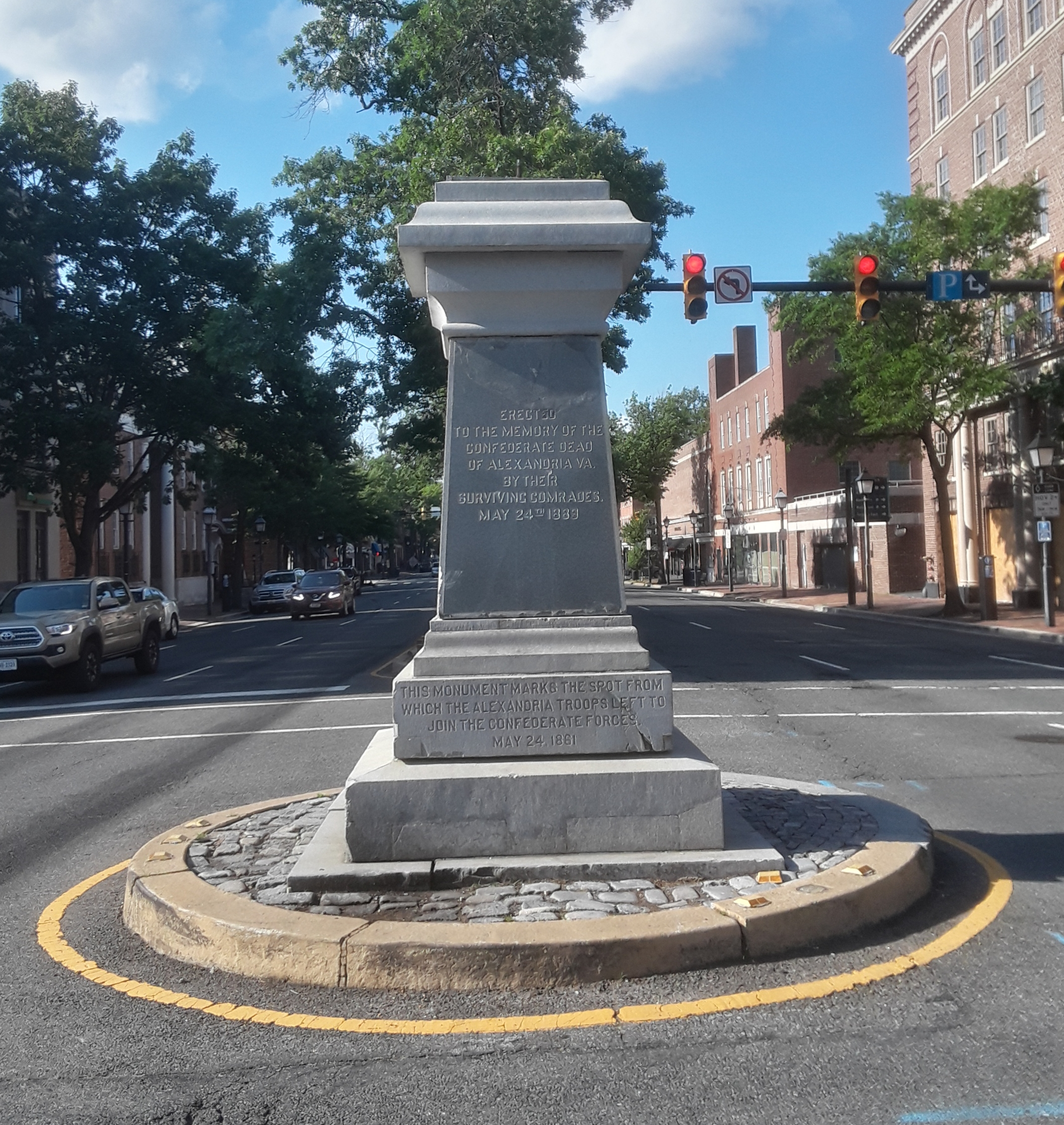 Pedestal of the Appomattox statue after its removal by the United Daughters of the Confederacy, June 2020.jpg